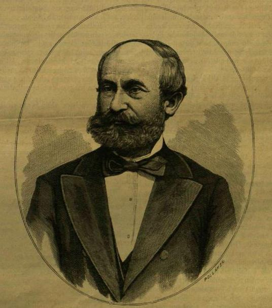 Portrait of Kálmán Szily